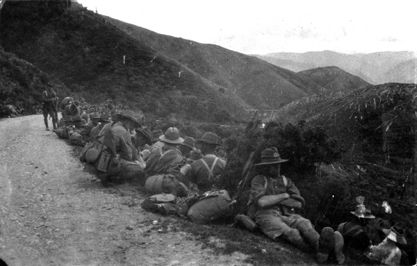 View looking south along the Rimutaka Hill road towards Wellington, with soldiers on the verge.